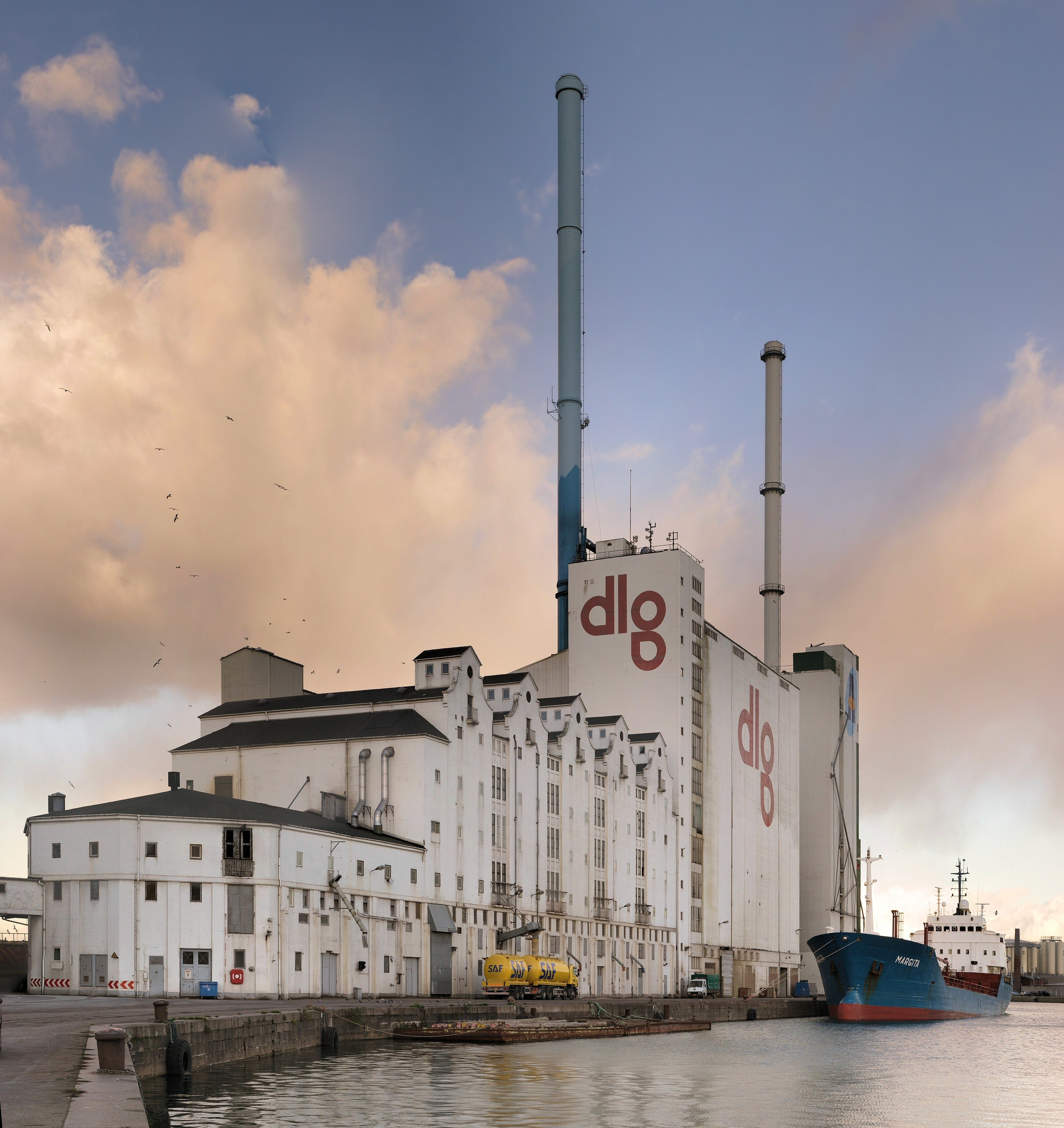 Silos: "The five sisters" at Aarhus harbor, designed by Hjalmar Kjaer